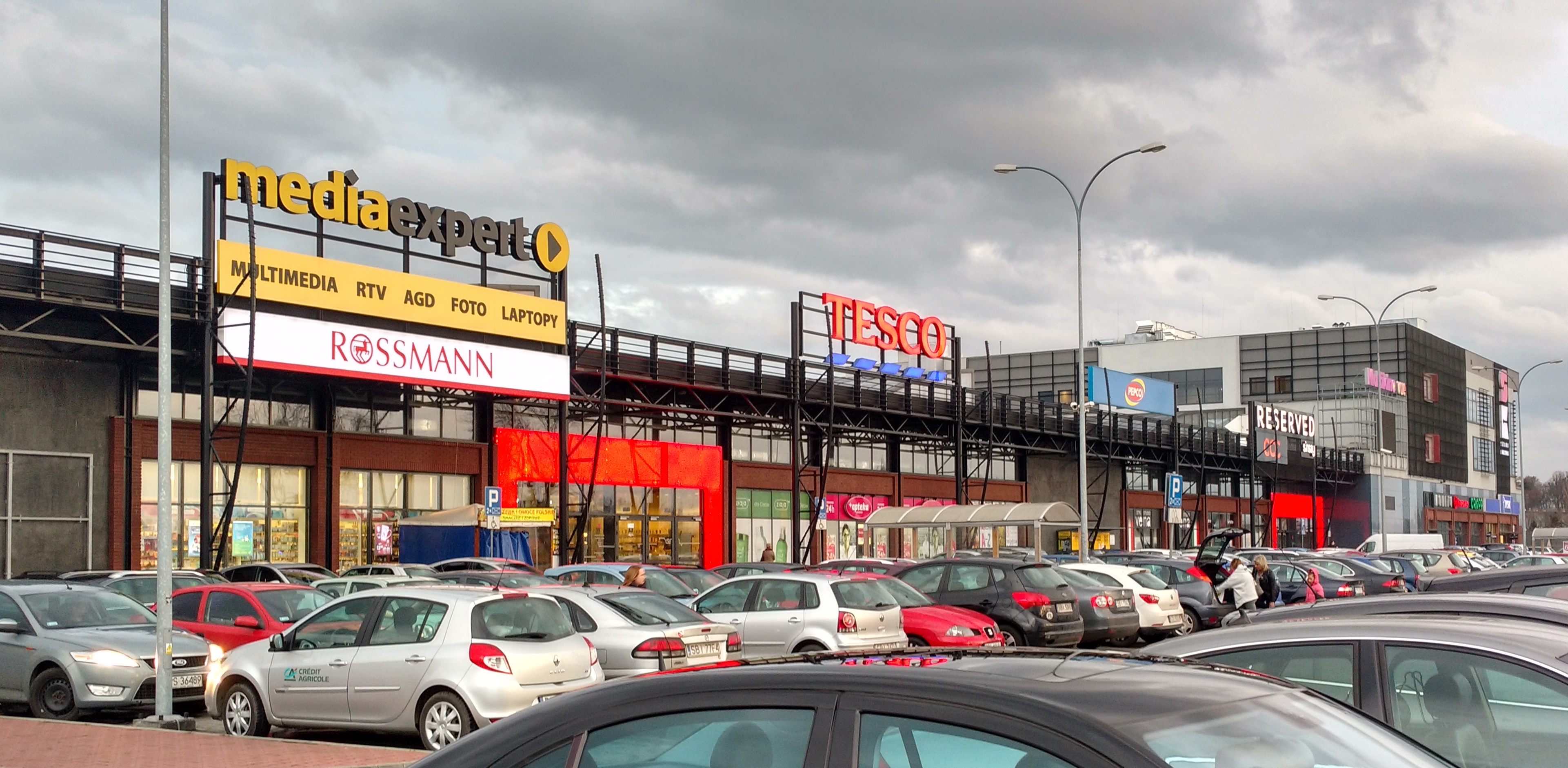 Stara Kablownia in Czechowice-Dziedzice